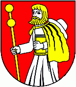 Official symbol